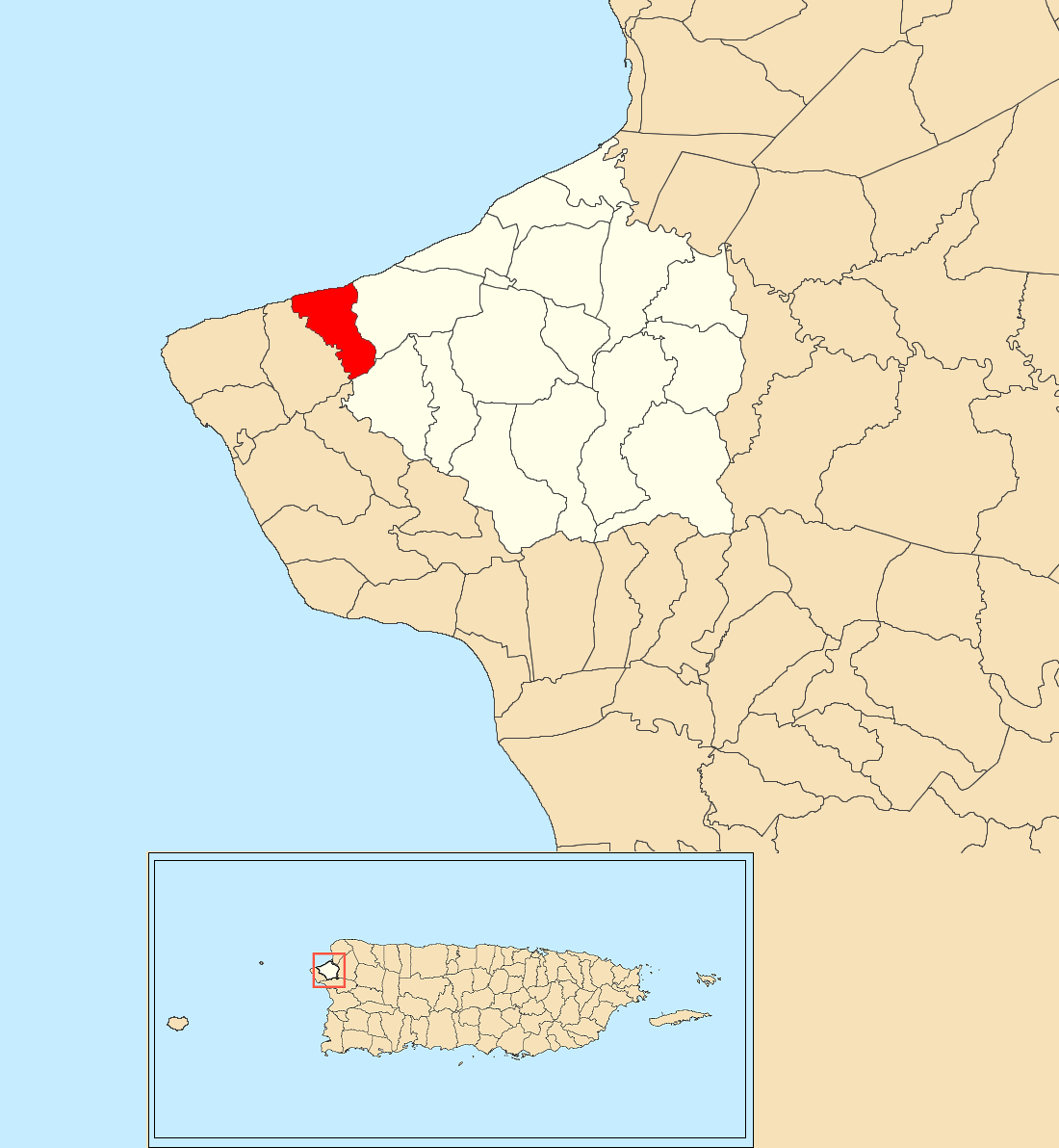 Río Grande, Aguada, Puerto Rico locator map